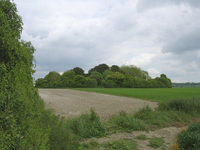 Duck's Nest long barrow, Rockbourne. Looking east at the tree-covered long barrow mound from the by-way that crosses the chalk ridge. The barrow mound is about 50m long, but its hard to tell when it is this overgrown.